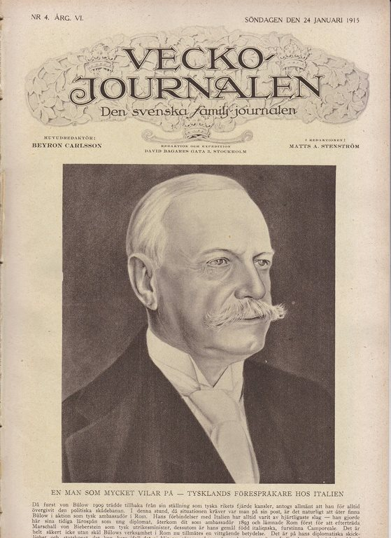 Magazine cover, Veckojournalen 24 January 1915. Editor Matts A. Stenström.